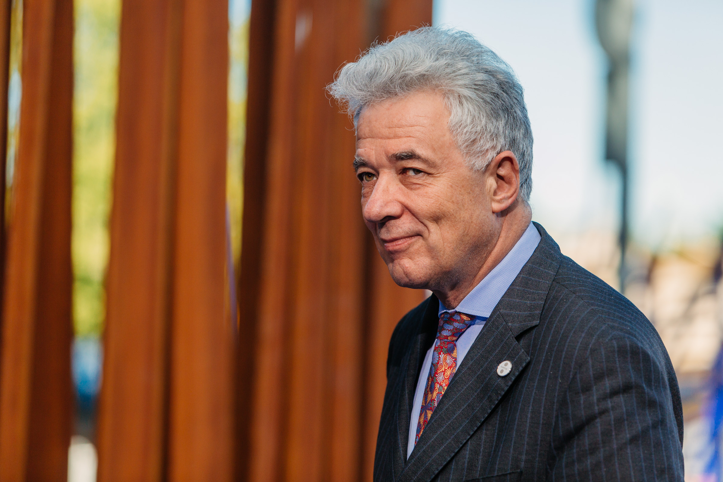 Thomas Mayr-Harting, Managing Director, EEAS